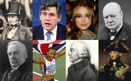 A montage of notable Britons (British people). All were born in the United Kingdom (and Great Britain), post 1707. All are of indigenous British stock (mixture of English, Scottish and Welsh). Kelly Holmes's father was Jamaican. Including: Top row, left to right: Isambard Kingdom Brunel - British engineer (born in England). Gordon Brown - British Prime Minister (born in Scotland). Keira Knightley - British Actress (born in England - of mixed English and Scottish ancestry) Winston Churchill - British Prime Minister (born in England). Bottom row, left to right: David Lloyd George - British Prime Minister (born in England - of Welsh ancestry) Kelly Holmes - British Olympic gold medalist who represents Great Britain (born in England - of mixed English and Jamaican heritage) Adam Smith - British Economist, first Scot on Bank of England notes, ardent Unionist (born in Scotland). Horatio Nelson - British military hero - (born in England).